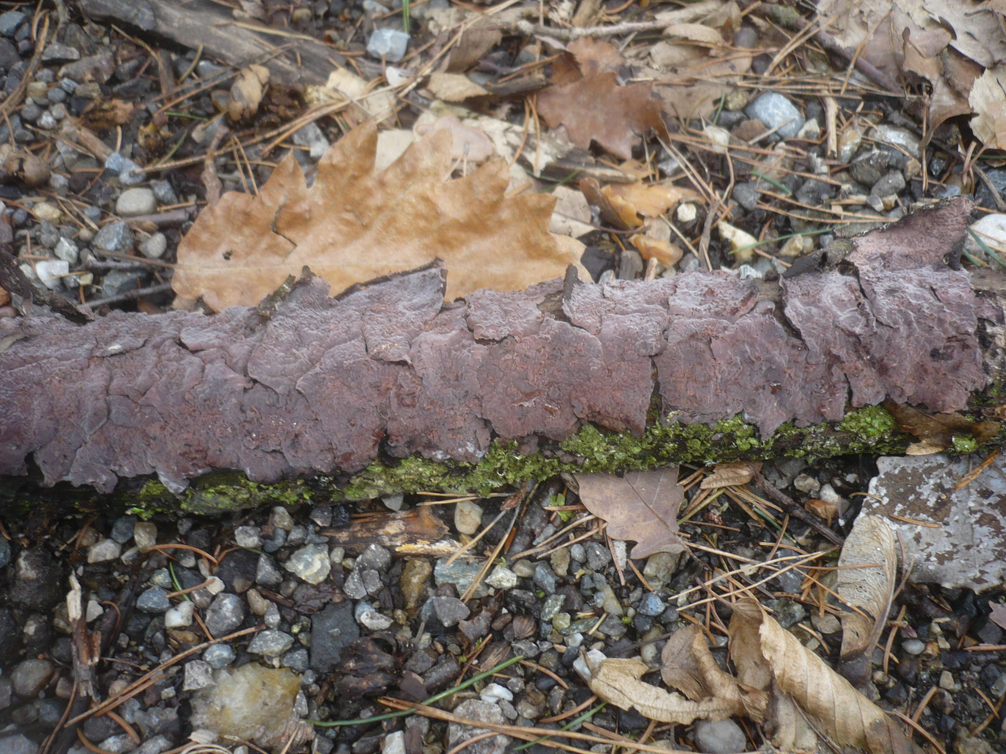 Peniophora quercina (Persoon) Cooke Image location: Jüdingsau, Marz, Bezirk Mattersburg, Burgenland, Austria Recognized by sight: confined to oak For more information about this, see the observation page at Mushroom Observer.